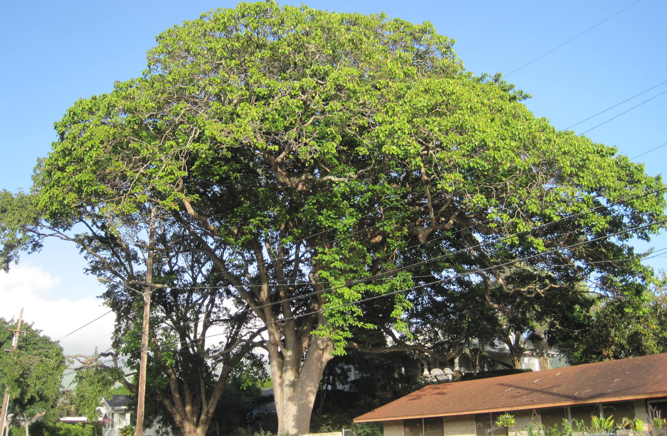 Sandbox tree, Grace Cooke House, 2365 Oahu Ave., Honolulu, Hawaii, on National Register of Historic Places